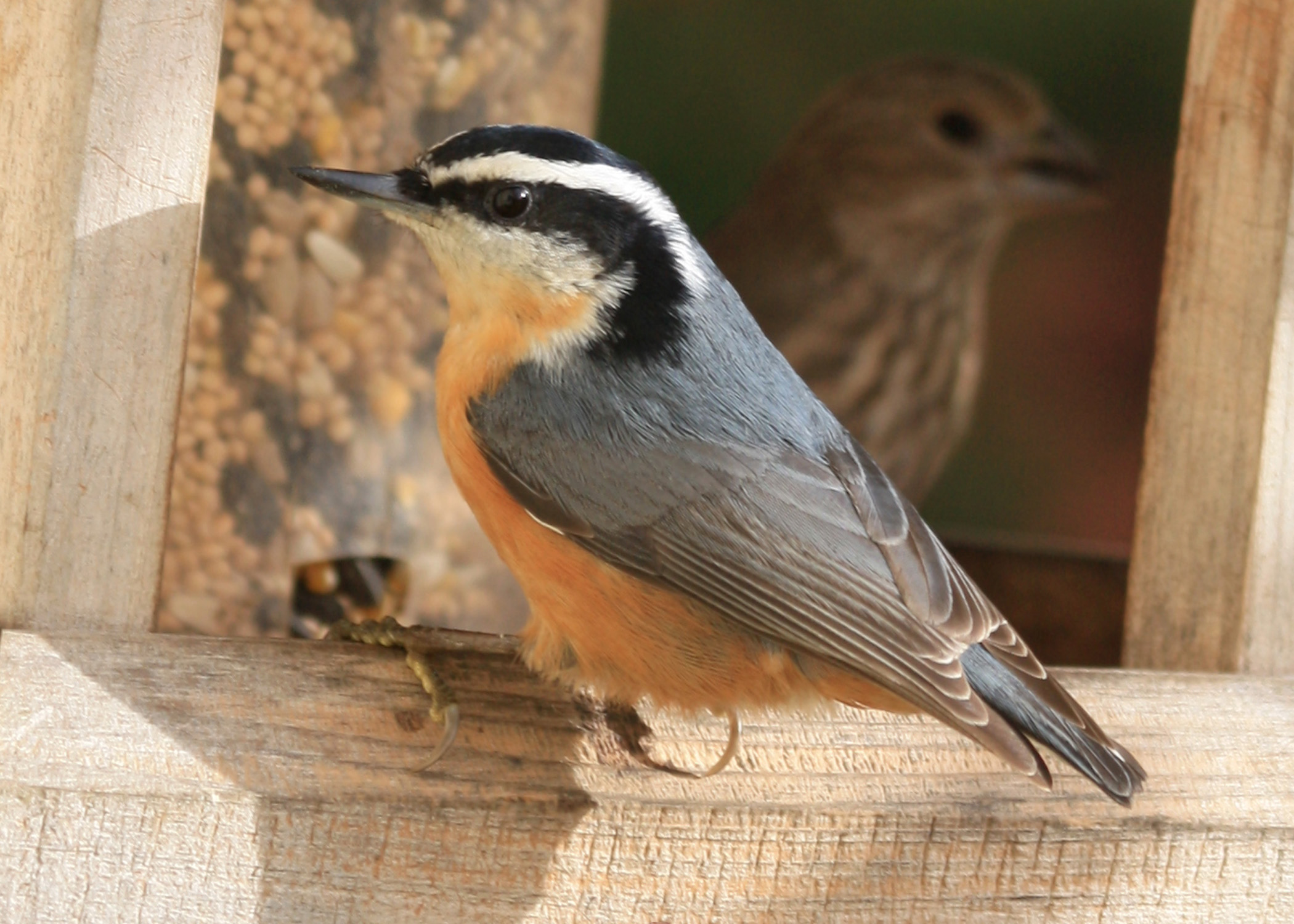 Male Red-breasted Nuthatch at a Salem, Oregon birdfeeder. October 2010